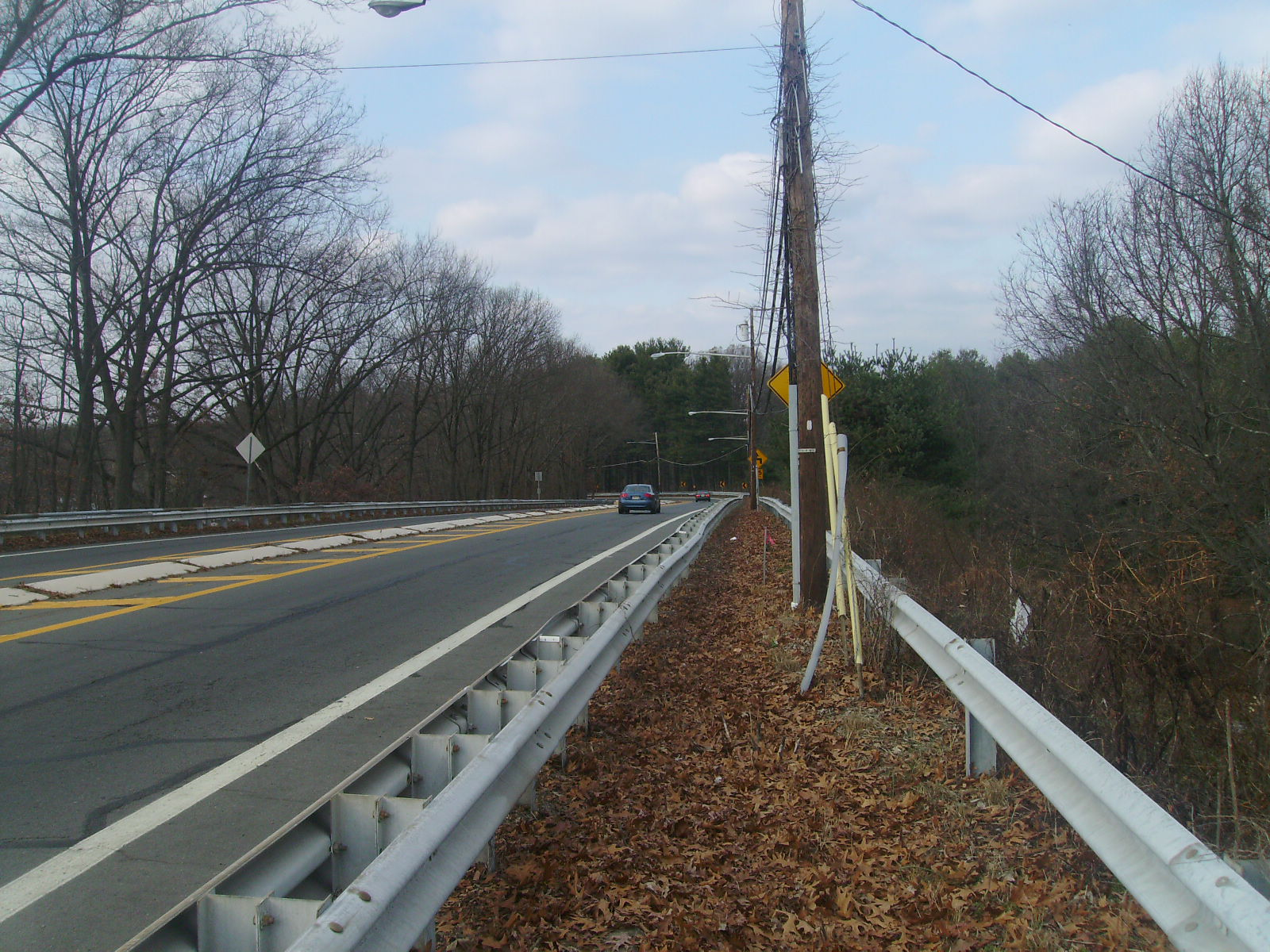 New Jersey Route 64 heading eastward over the Northeast Corridor Line in West Windsor Township.